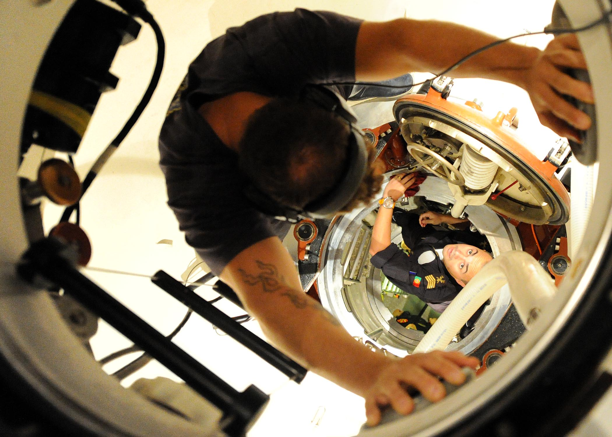 MEDITERRANEAN SEA (June 3, 2011) Navy Diver 1st Class Ralph Lafond, assigned to the U.S. Navy's Deep Submergence Unit, talks to a crewmember of the Portuguese navy submarine SSK Tridente (S 70) after mating the U.S. Navy Submarine Rescue Diving and Recompression System's (SRDRS) Pressurized Rescue Module (PRM), Falcon, with Tridente during Bold Monarch 2011. Participants and observers from more than 25 countries are taking part in NATO exercise Bold Monarch 2011, the world's largest submarine rescue exercise. This 12-day exercise supports interoperability between all submarine rescue units. (U.S. Navy photo by Chief Mass Communication Specialist Kathryn Whittenberger/Released)